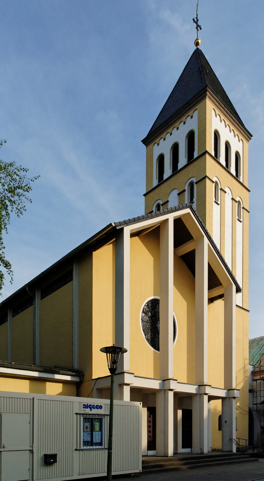 Saint Ursula in Düsseldorf-Grafenberg, Germany